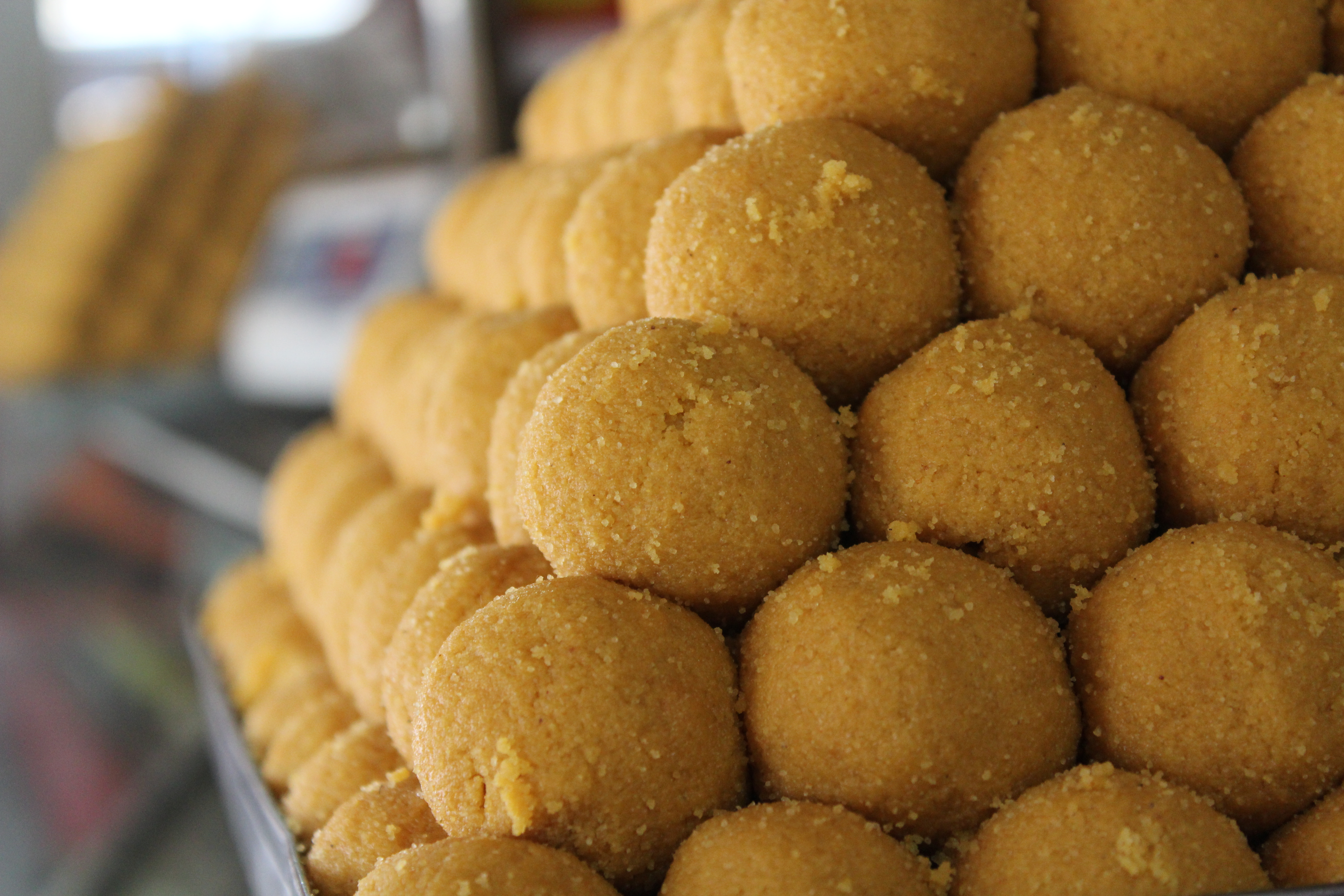 it just melts into your mouth and feel the aftertaste_score 100